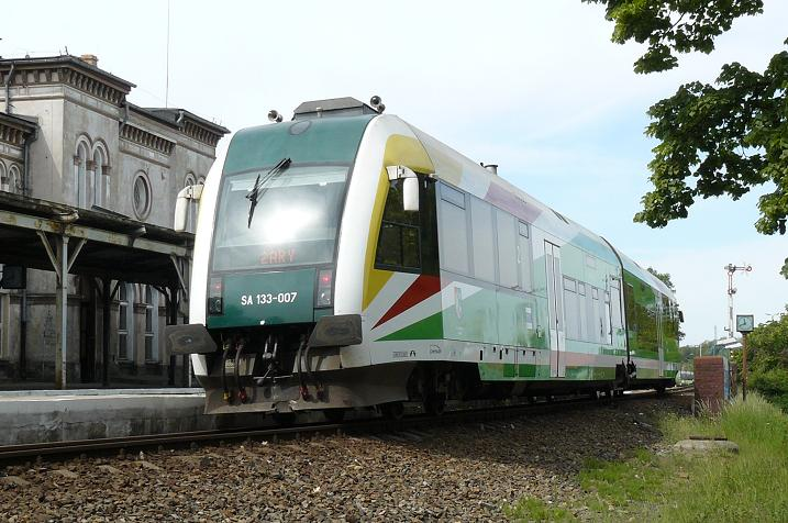 Żary - train station and disel car class SA133.